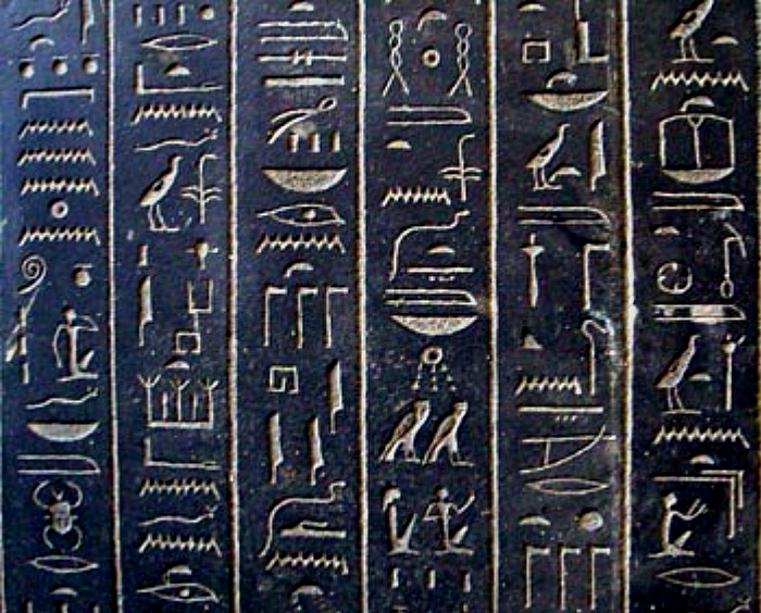 6 columns of Egyptian hieroglyphs. Column 6 on left: Column 1: Festival pavilion, Was sceptre, String coiled, Man hiding, Column 2: Crook, Column 3: Forever, Eternity, Sun with rays, Column 4: Piece of string, Column 5: Pool with lotus, Column 6: Waters, Man with hand at mouth. Example of Egyptian hieoglyphs from the Black Schist sarcophagus of Ankhnesneferibre. Twenty-Sixth Dynasty, about 530BC, Thebes. from the British Museum, London, UK. A view of the whole sarcophagus. Source Photo personnelle de User:Circumstance ( Licensing GFDL